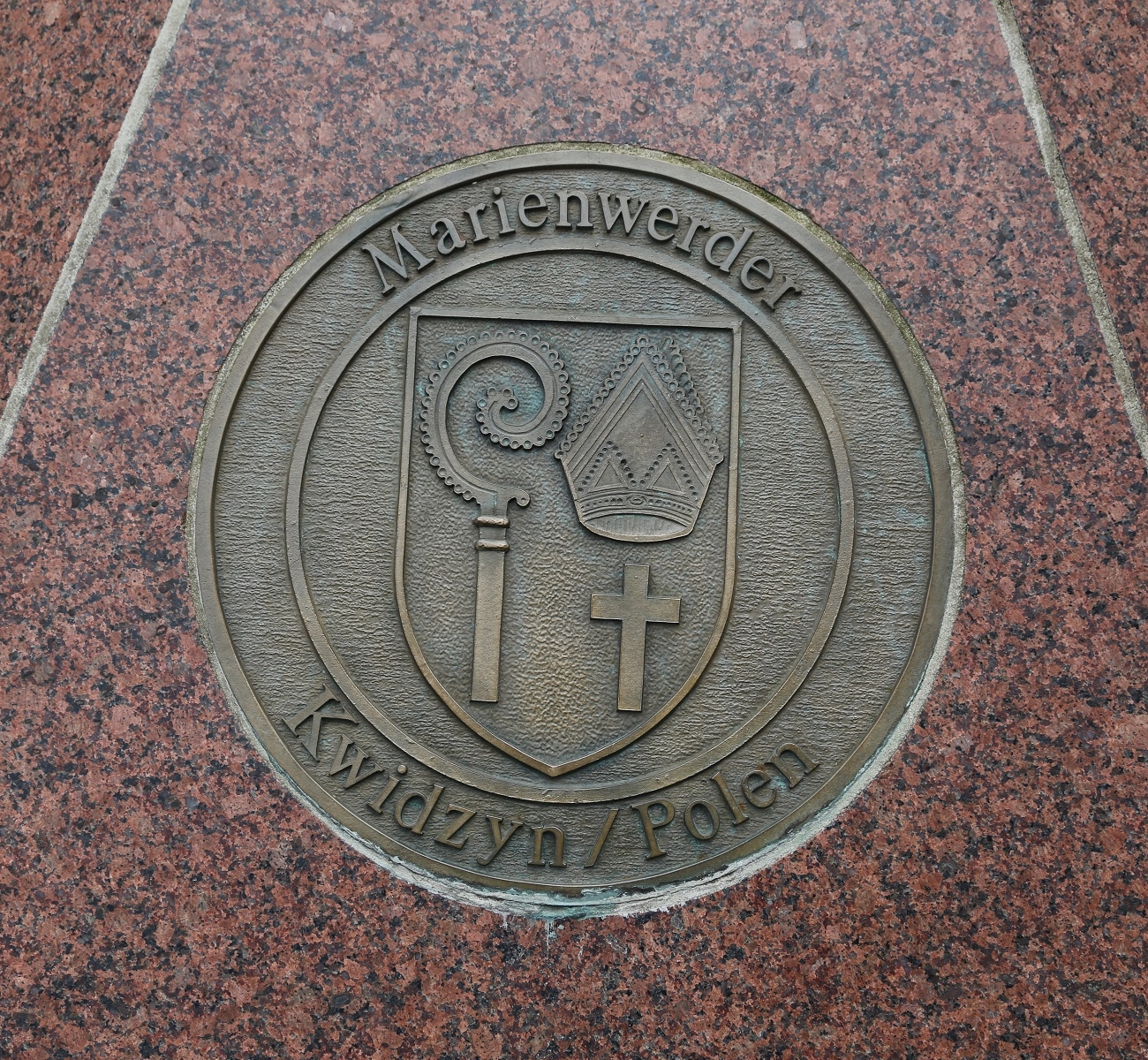 Kwidzyn (Poland, formerly Marienwerder (German)) is one of the twinned towns / sister cities of Celle in the North of Germany. Placed at a work of art with the further seals of her twinned towns. Inserted in polished granite of a multilateral similar to pyramid polygon (see survey photography)